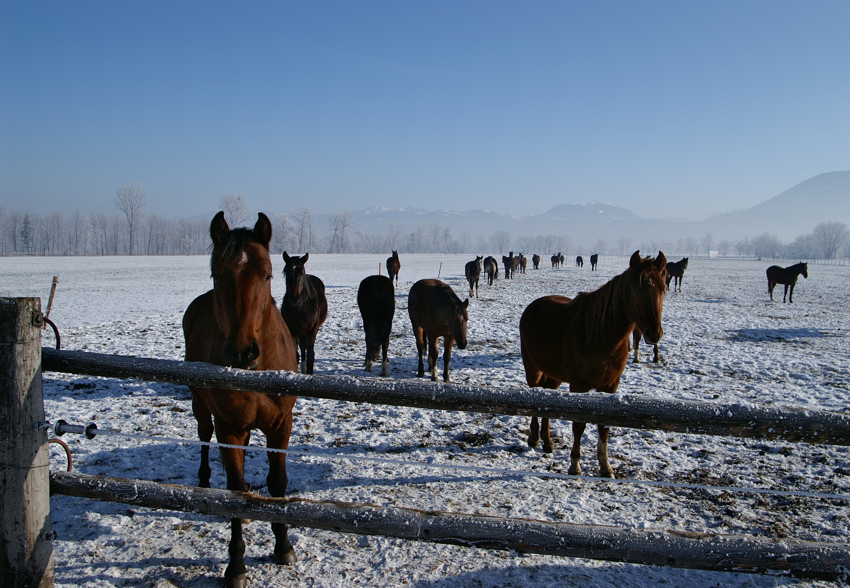 Hoar frost. Between Sennwald and Haag a horse pasture with pups in the Swiss Rhine valley.